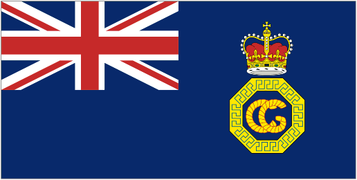 Flag of Her Majesty's Coastguard